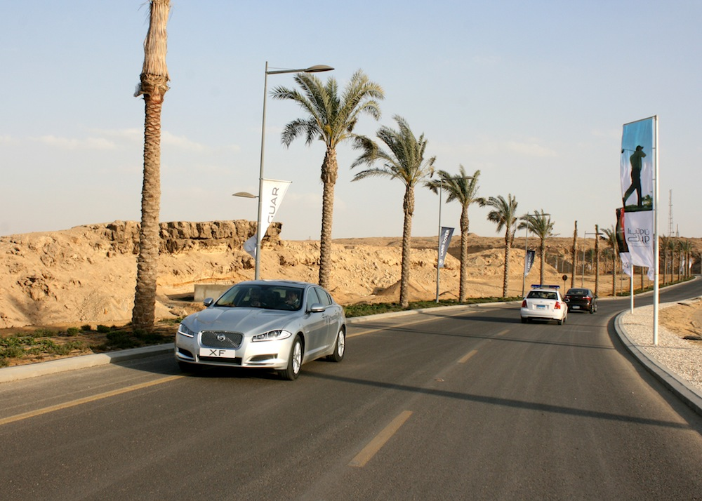 Official Jaguar Land Rover importer for the GCC MTI Automotive in Egypt and prominent real estate agents Emaar recently invited customers and marque fans to the exclusive Cars & Cigars family day event.